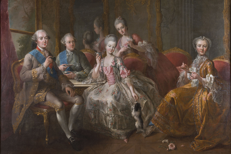 Repro painting of the family of the Duke of Penthièvre sat in front of his son the Prince of Lamballe with his wife and daughter Mademoiselle de Penthièvre and the Dukes mother, the widowed comtesse de Toulouse.